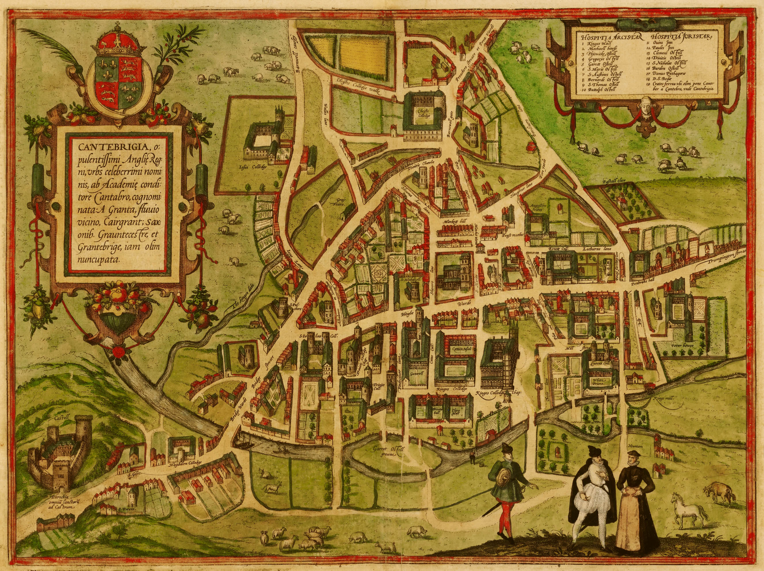 Map of Cambridge dated 1575. The inscription reads: Cantebrigia: opulentissimi Anglie Regni, urbs celeberrimi nominis, ab Academie conditore Cantabro, cognominata: A Granta, fluvio vicino, Cairgrant; saxonib, Grauntecestre, et Grantebrige, iam olim nuncupata.